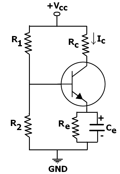 Voltage divider with capacitor